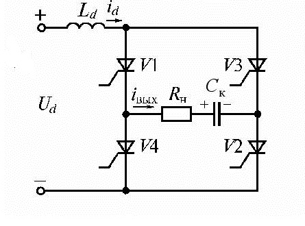 DerevenetsД